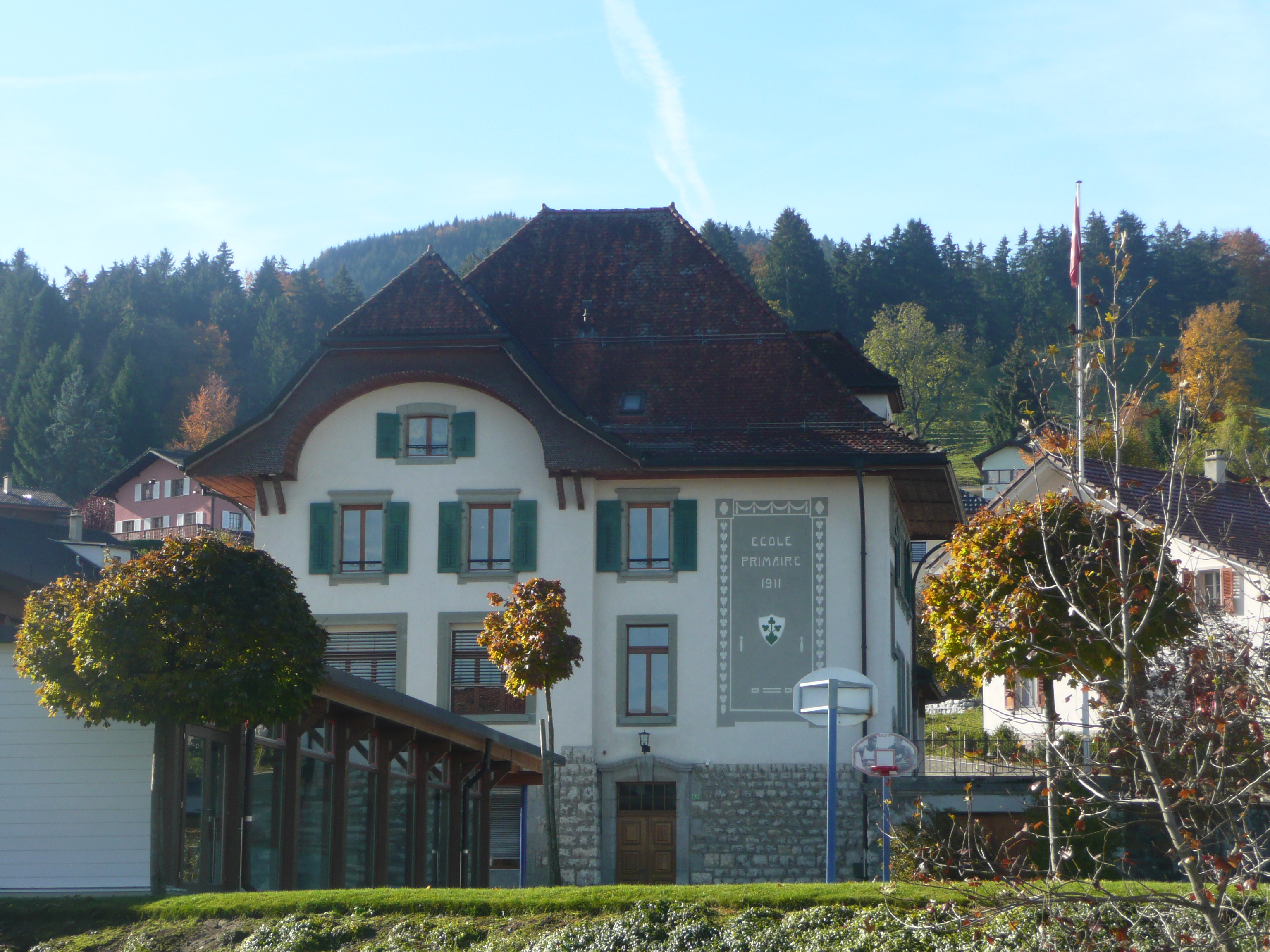 Le Pâquier-Montbarry (Le Pâquier (Fribourg)) (autumn)